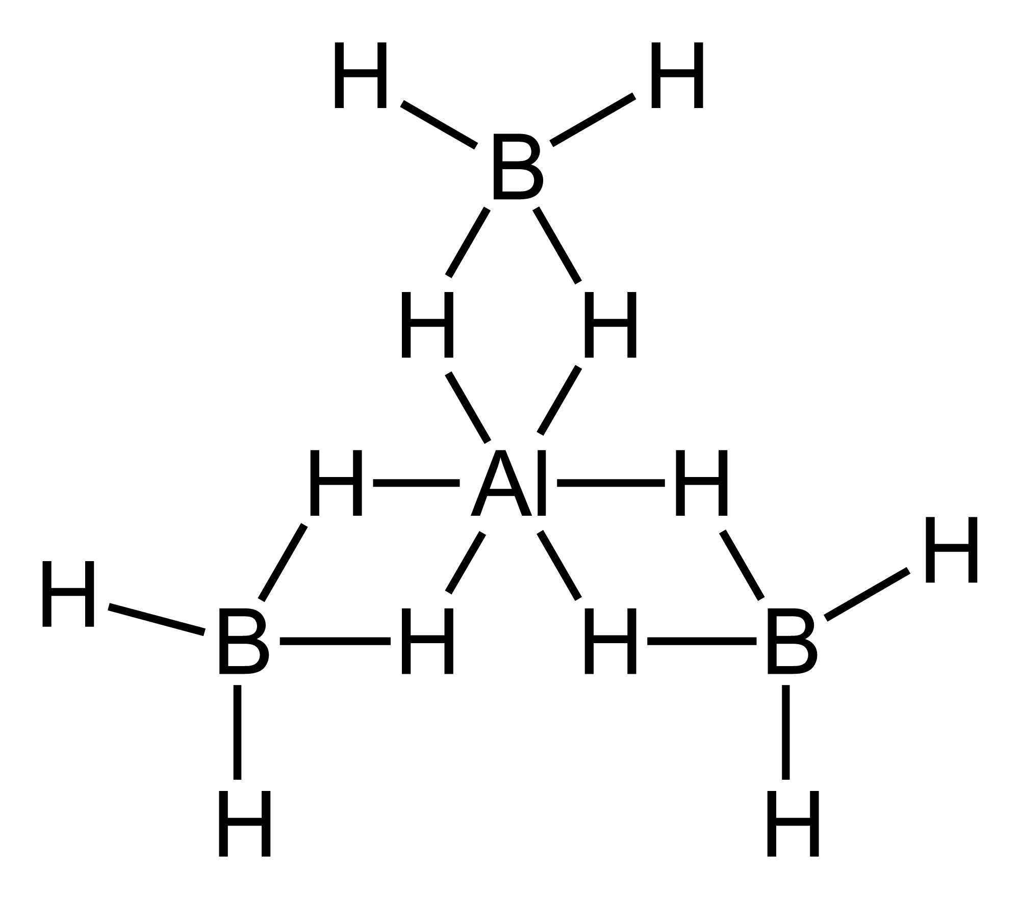 Structural formula of the aluminium borohydride molecule, Al(BH4)3. Structural information (determined by X-ray crystallography) from J. Alloys Compd. (2007) 446–447, 310–314.